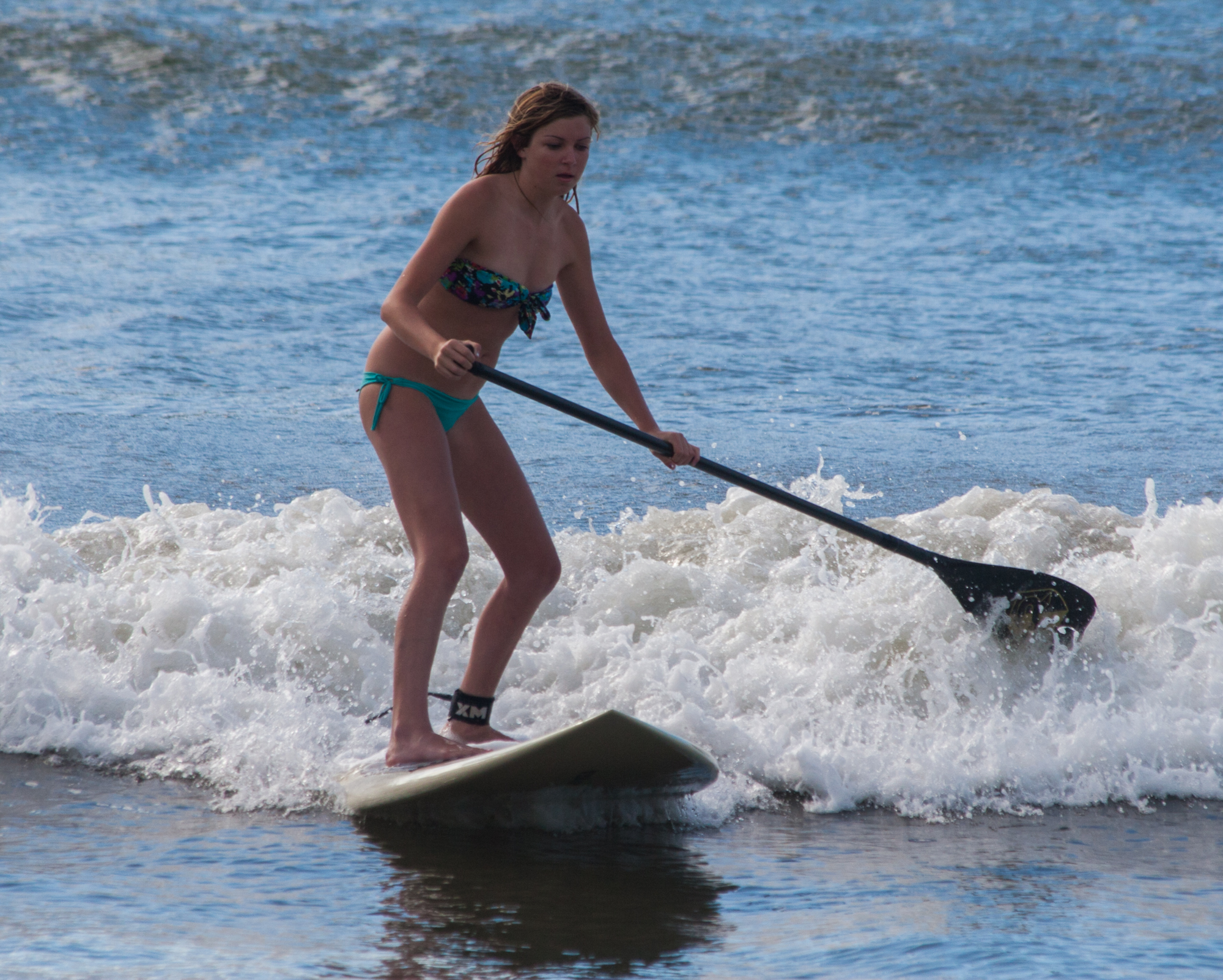 A female paddle surfing in Hanalei Bay, Hawaii